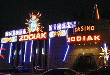 image from website